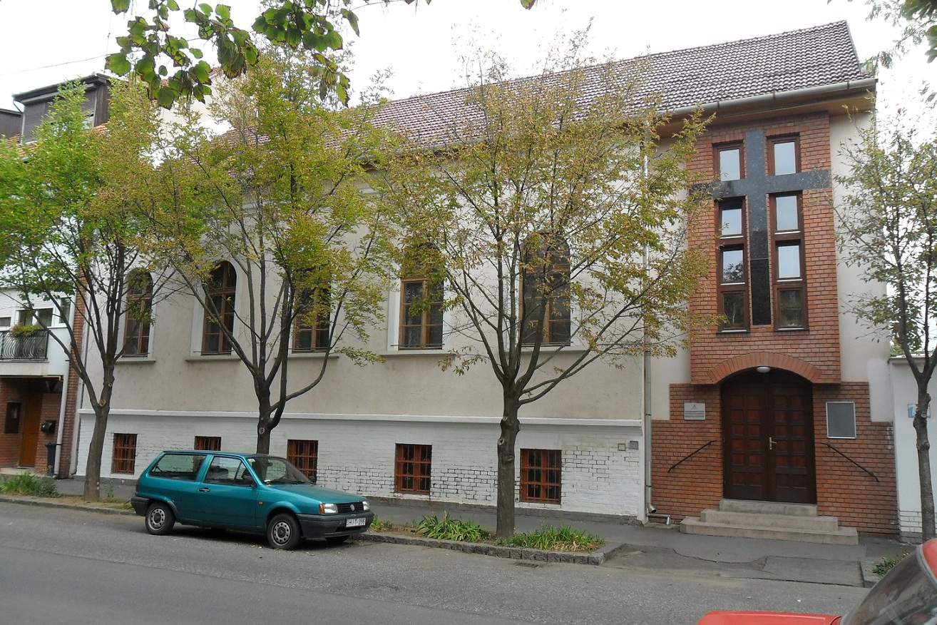 7th-Day Adventist Church in Szeged, Hungary